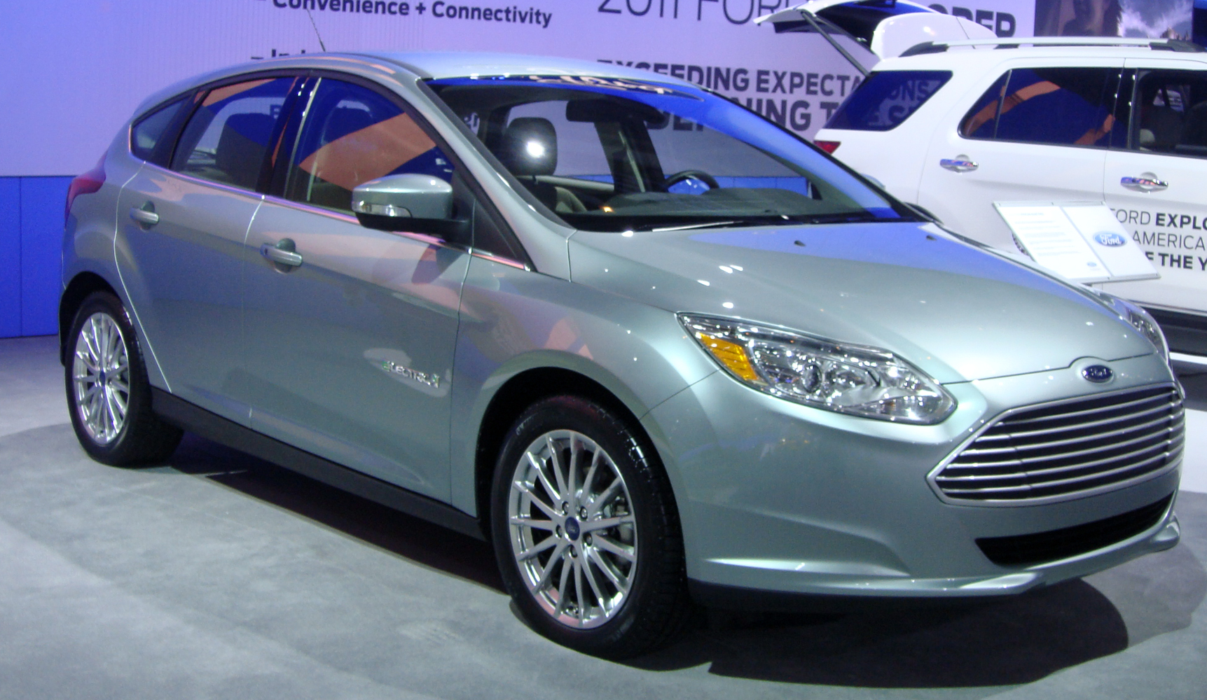 Ford Focus Electric at the 2011 Washington Auto Show